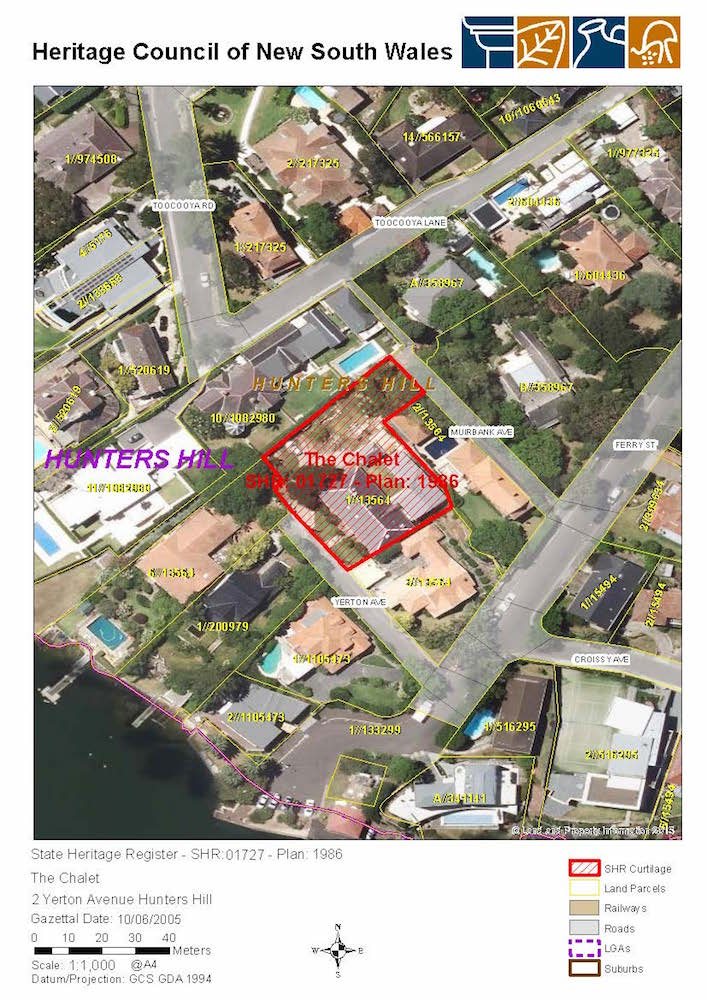 The Chalet: SHR Plan 1986